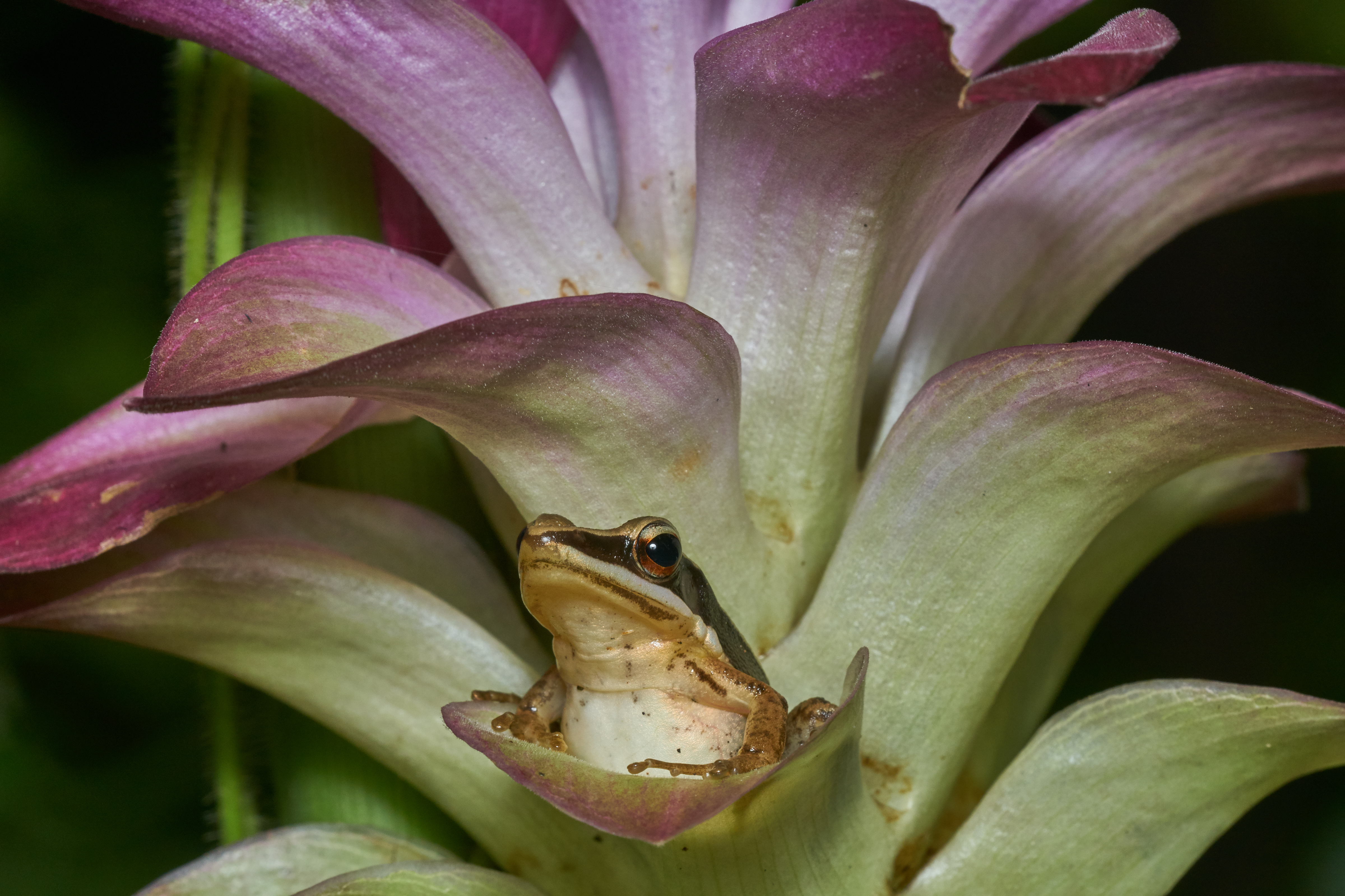 Indosylvirana urbis, Urban Golden-backed Frog, is a species of frog known only in the southern Western Ghats in Kerala. Here it is resting comfortably in the pink colored boat-shaped bract of the Curcuma angustifolia (East Indian Arrowroot) flower.